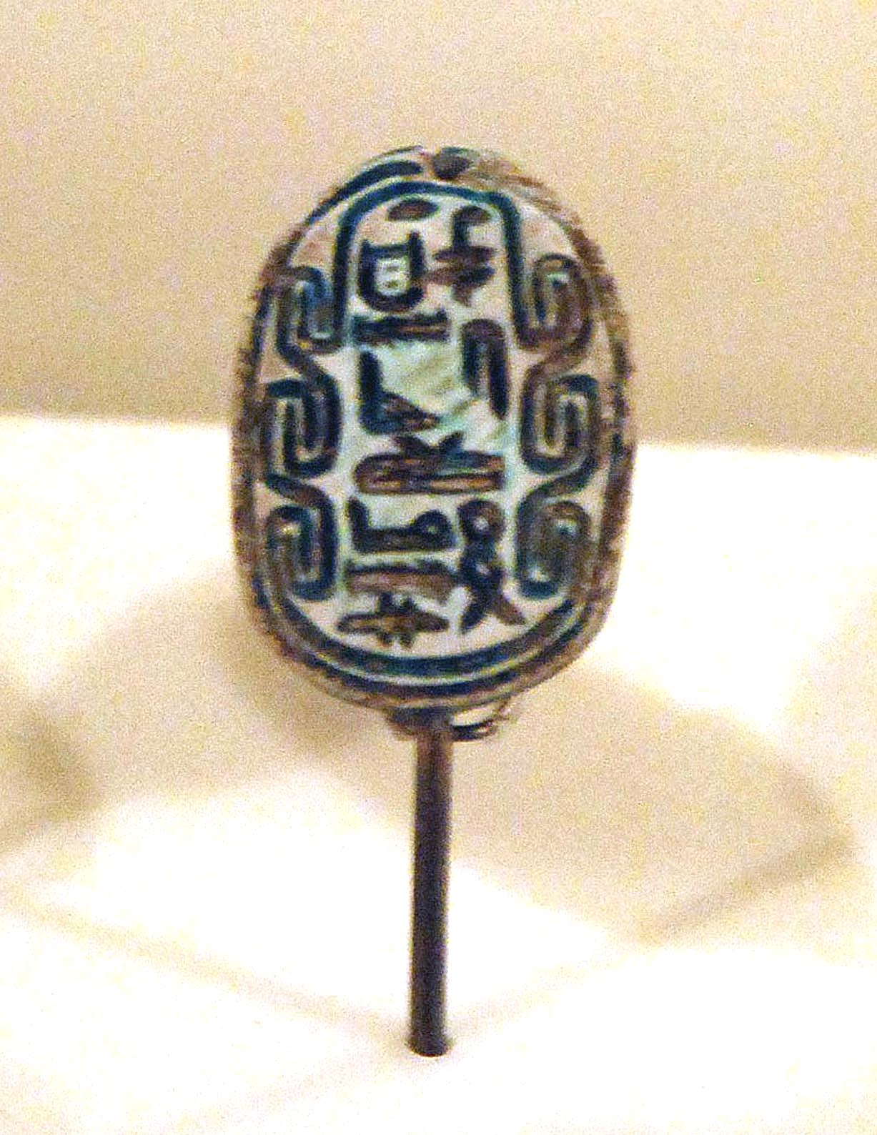 Scarab of Senebhenas, perhaps a wife of Userkare Khendjer. K.S.B.Ryholt, “The Political Situation in Egypt During the Second Intermediate Period” (1997), p. 39. (Not 103)